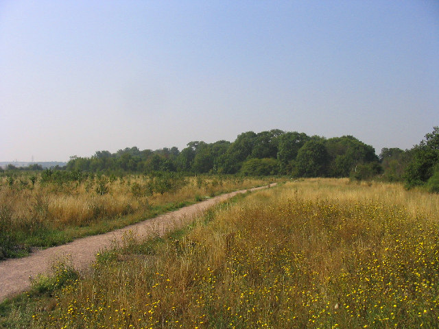 Cely Wood, Thames Chase, Upminster. Part of Thames Chase Urban Forest. This nelwy constructed woodland lies on the south side of Warwick Lane.